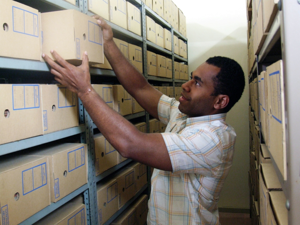 A staff member retrieves a box of files from shelving in a repository at The National Archives, Kew